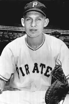 Nick Koback as a member of the Pittsburgh Pirates.